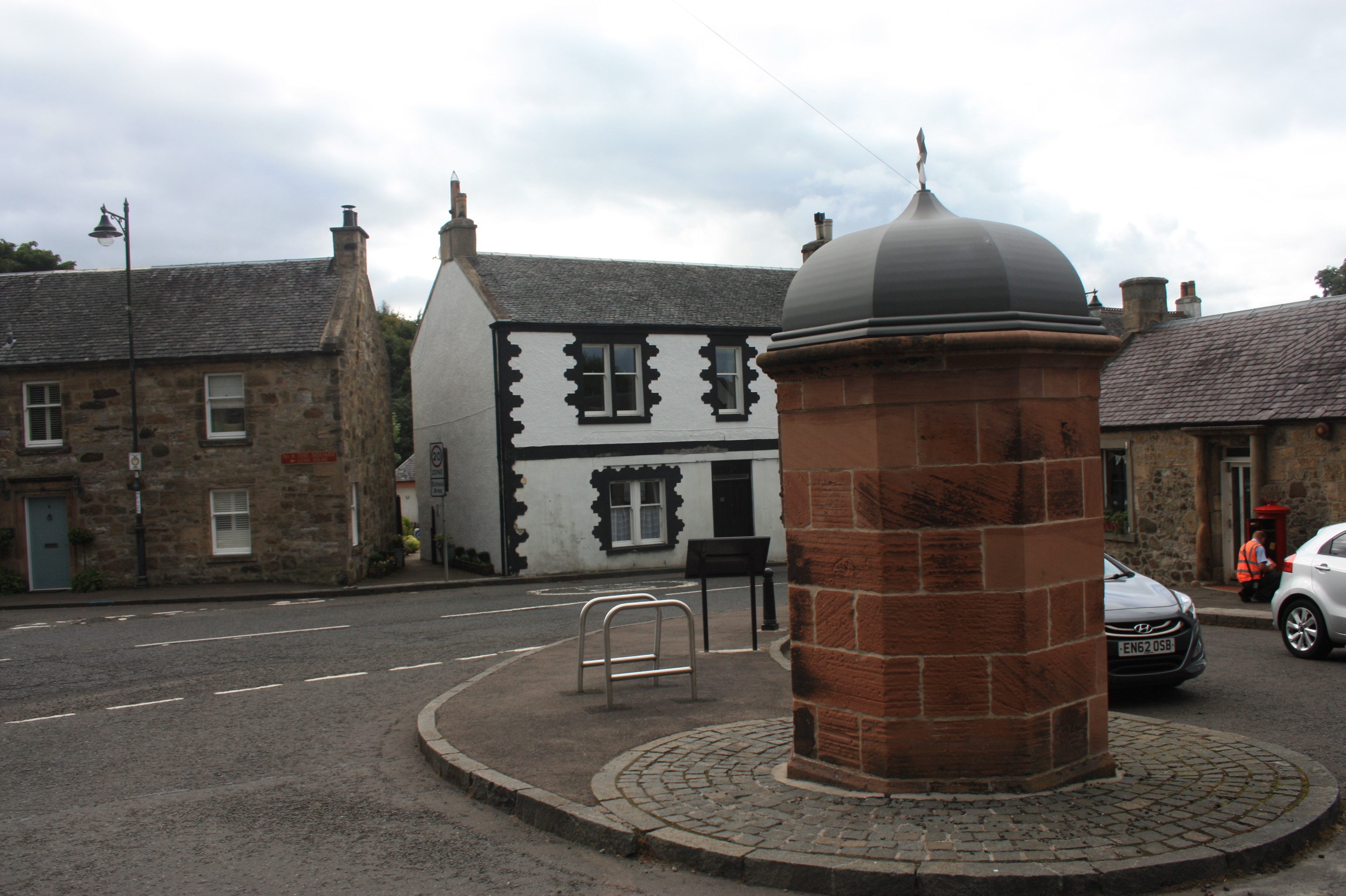 Jubilee Fountain, Torphichen